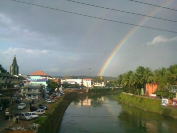 town from valiya palam